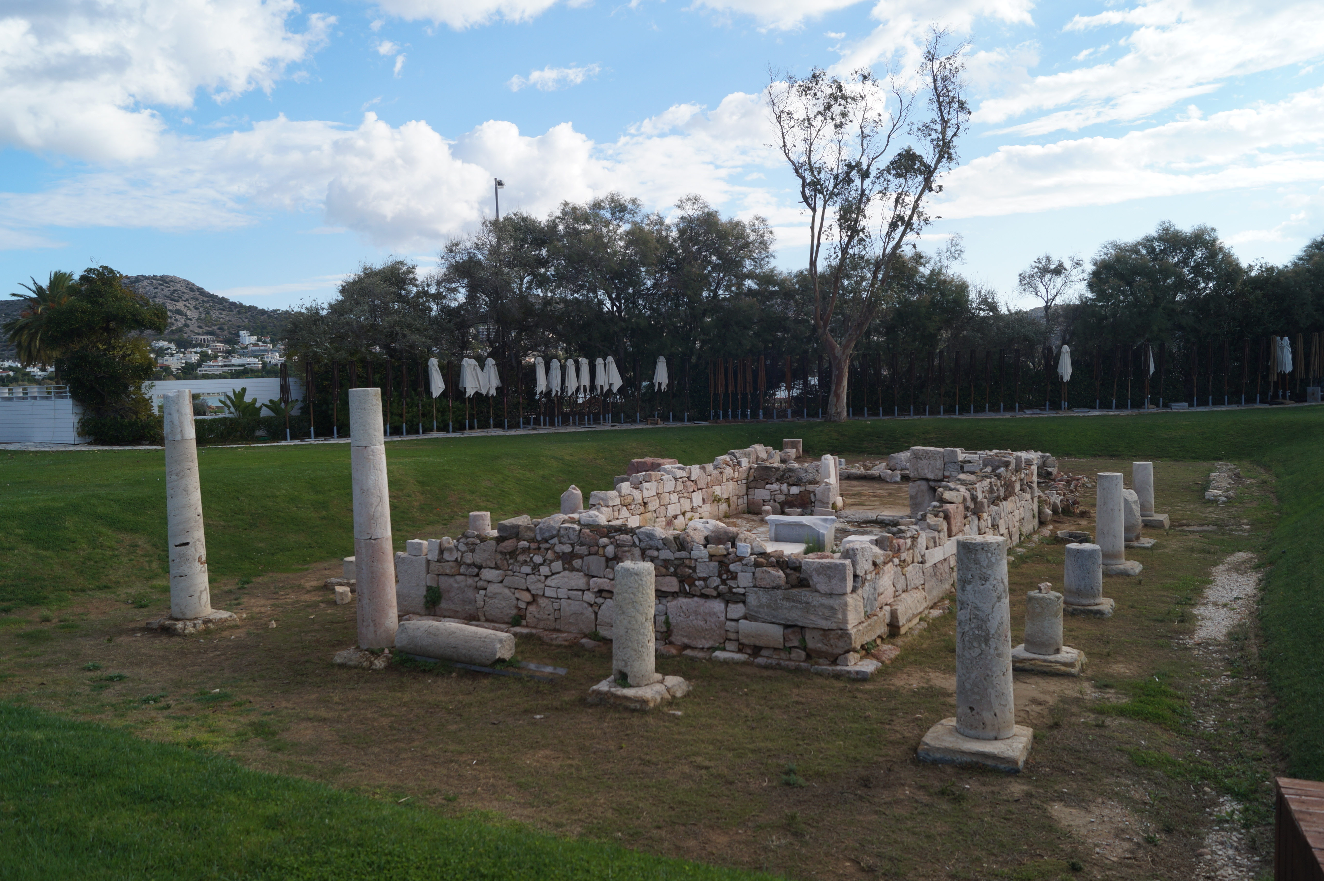 Vouliagmeni, Athens, Greece: South-west corner of the Temple of Apollo Zoster.